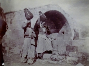 Women at Fountain of the Virgin, Nazareth, 1891. From original silver print in book titled: "A Month in Palestine and Syria, April 1891," (author unknown). Original 19th century book in the possession of Kimberly Blaker, New Boston Fine and Rare Books.